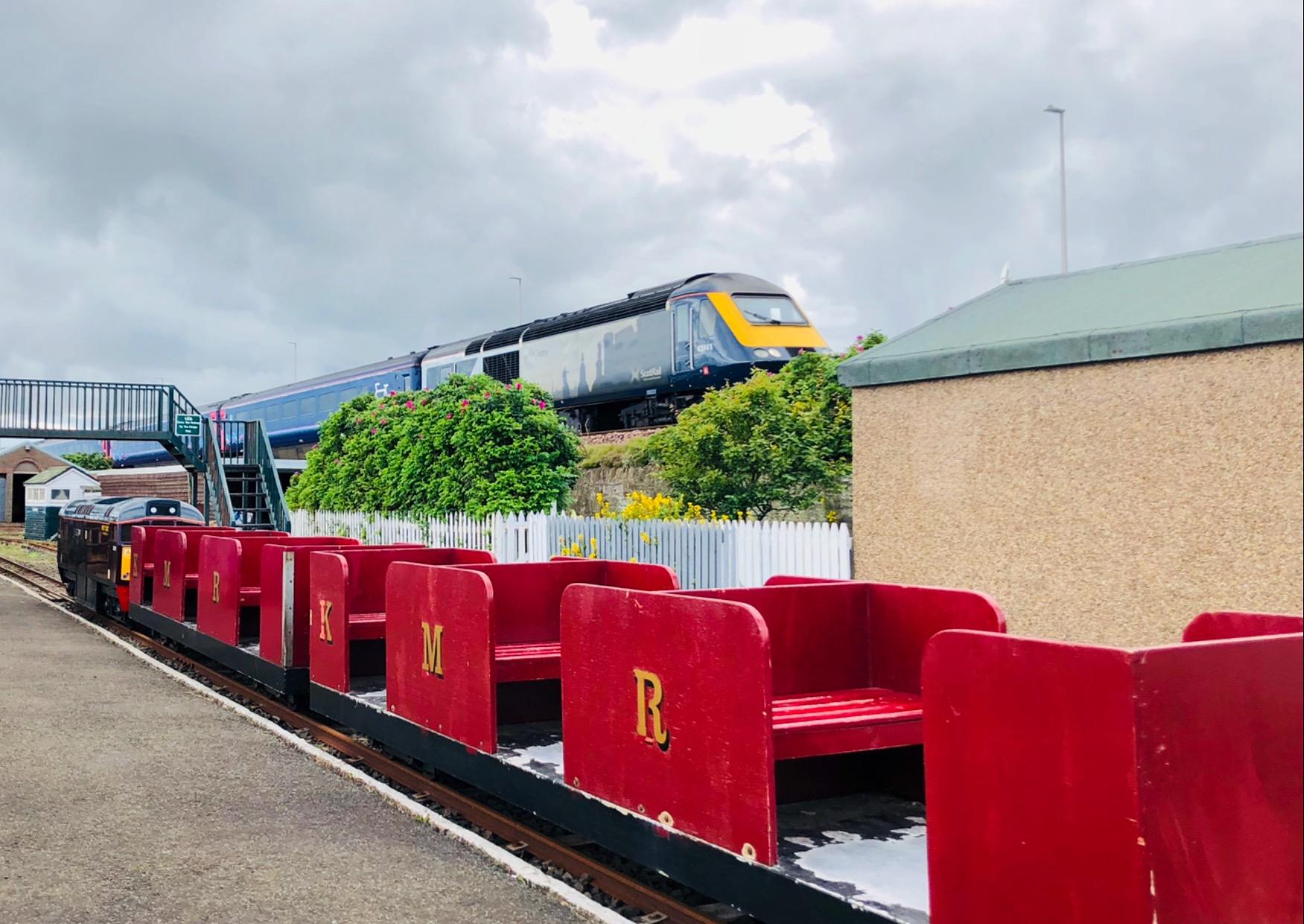 Photograph if Kerr’s Miniature Railway in Arbroath, Angus, Scotland. Alongside runs the East Coast Mainline.